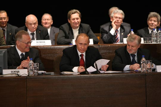 Prime Minister Vladimir Putin addresses a general meeting of the Russian Academy of Sciences